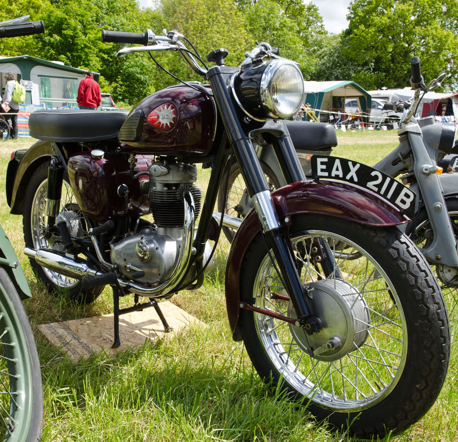 Heskin Hall Steam Fair 02/06/2013